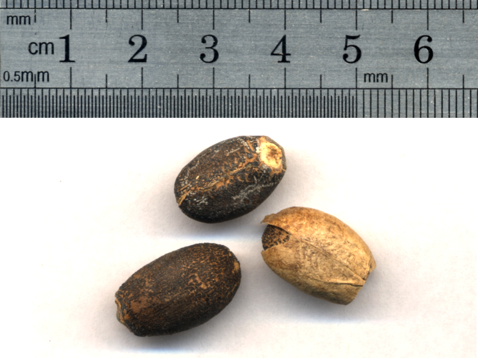 Seeds of Jatropha curcas scanned with size information